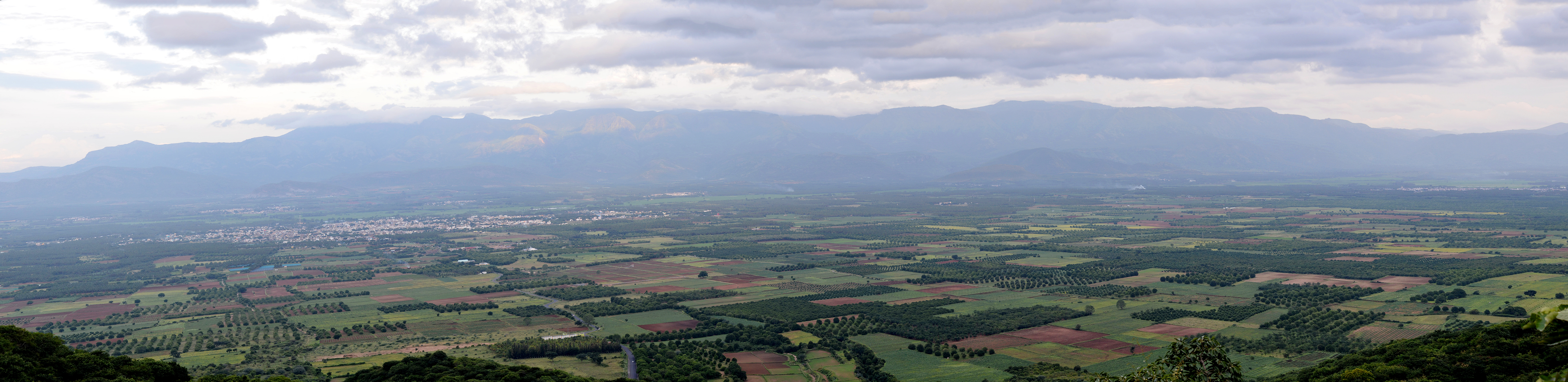 View of Tamil Nadu, from Ramakkalmedu